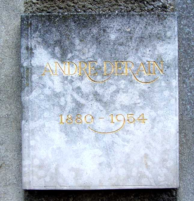 Touristic sign on the house of André Derain in Chambourcy (Yvelines, France)